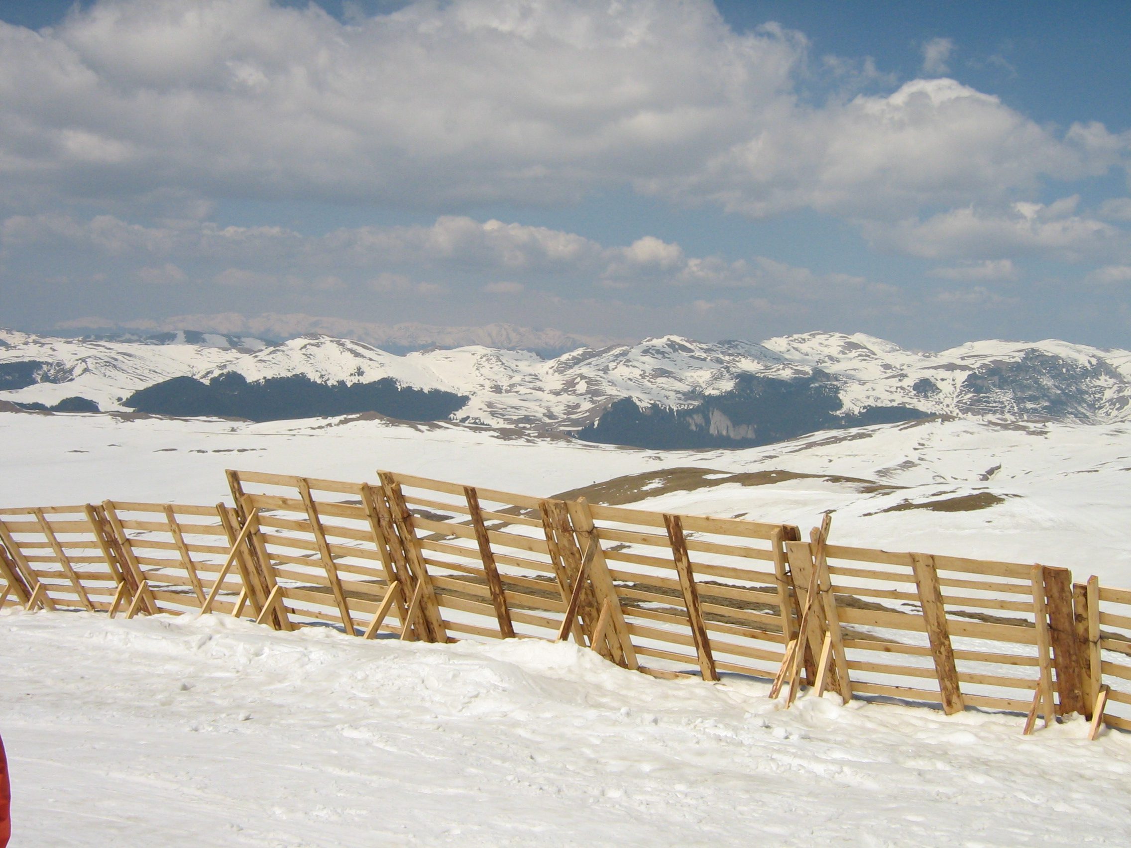 Bucegi Mountains at "Cota 2000", near Sinaia.